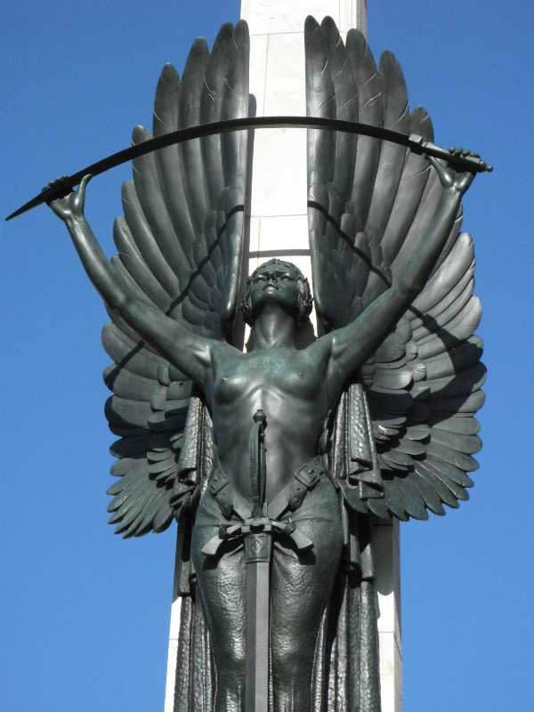 The angel bending the sword of war. Citizens' War Memorial in Cathedral Square, Christchurch.